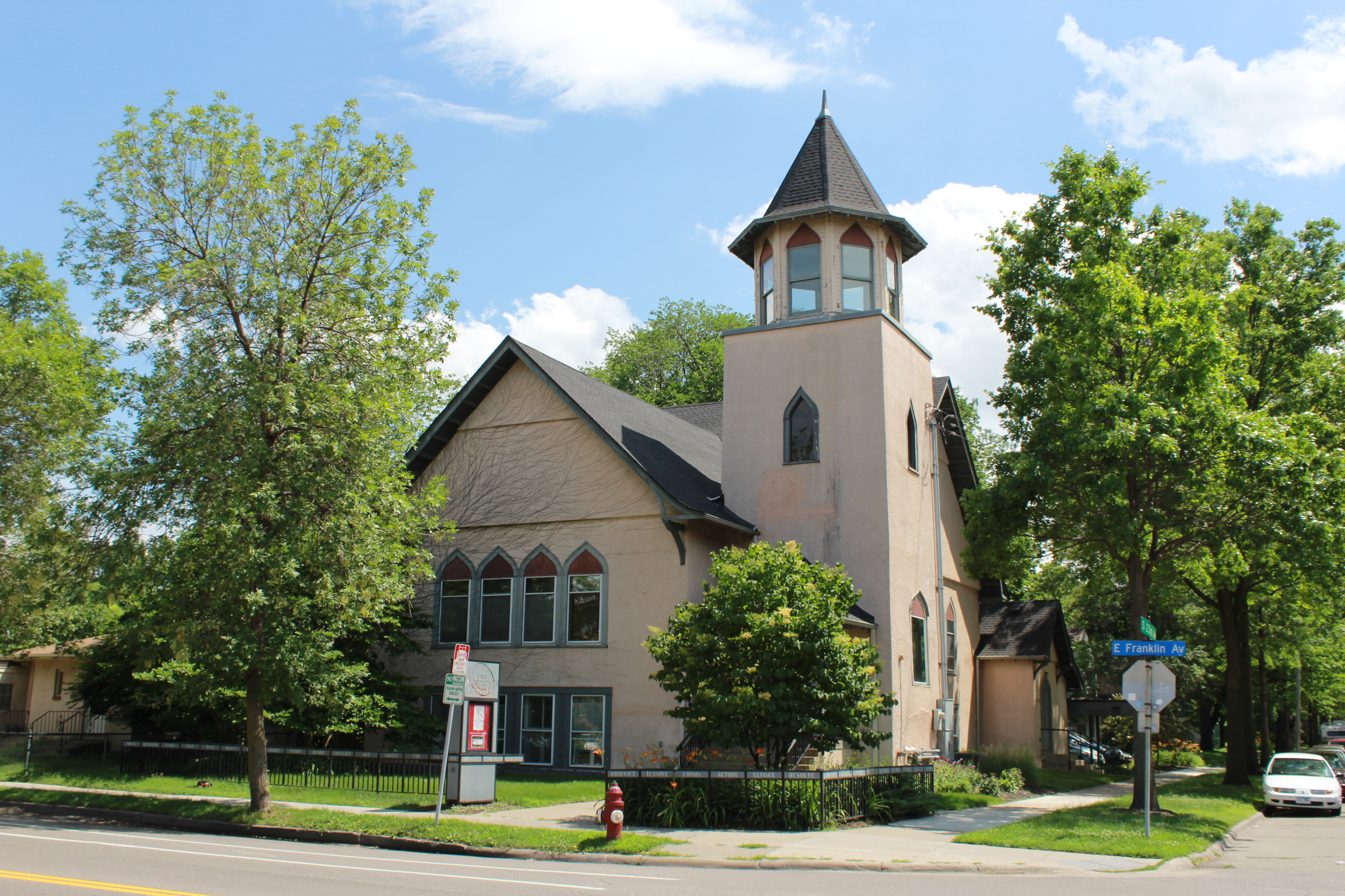 The Playwright's Center, a theater in Minneapolis, MN.